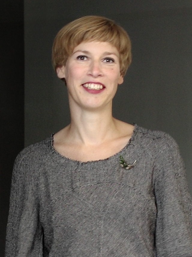 Portraet Janneke de Vries, Kuratorin of the GAK Gesellschaft für Aktuelle Kunst, Bremen (Germany)